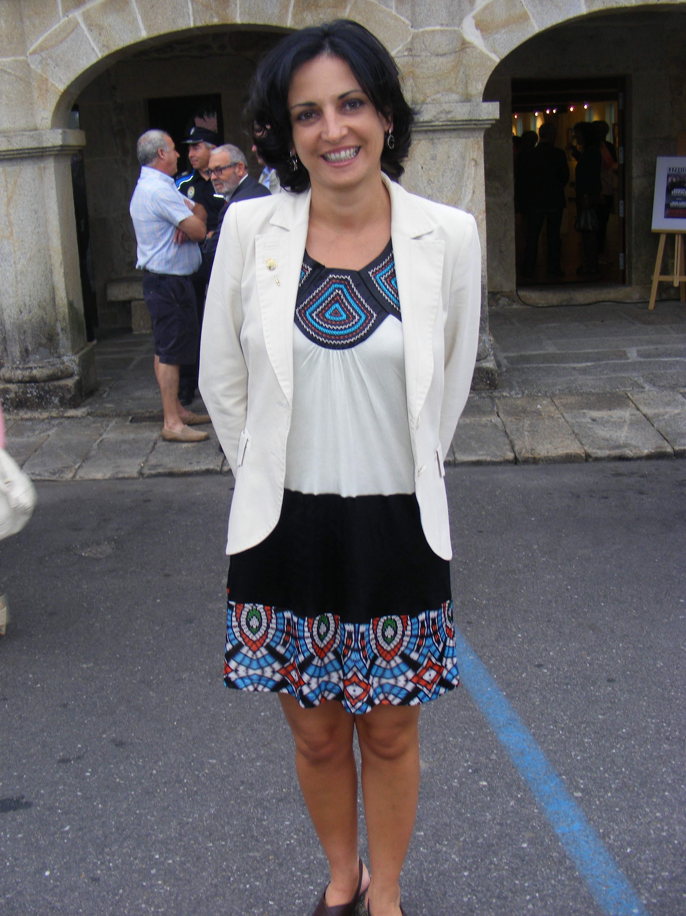 Sandra González Álvarez, Spanish politician in the XXI Feira do Viño do Rosal